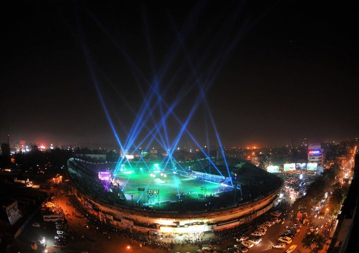 A view at NPL starting ceremony.